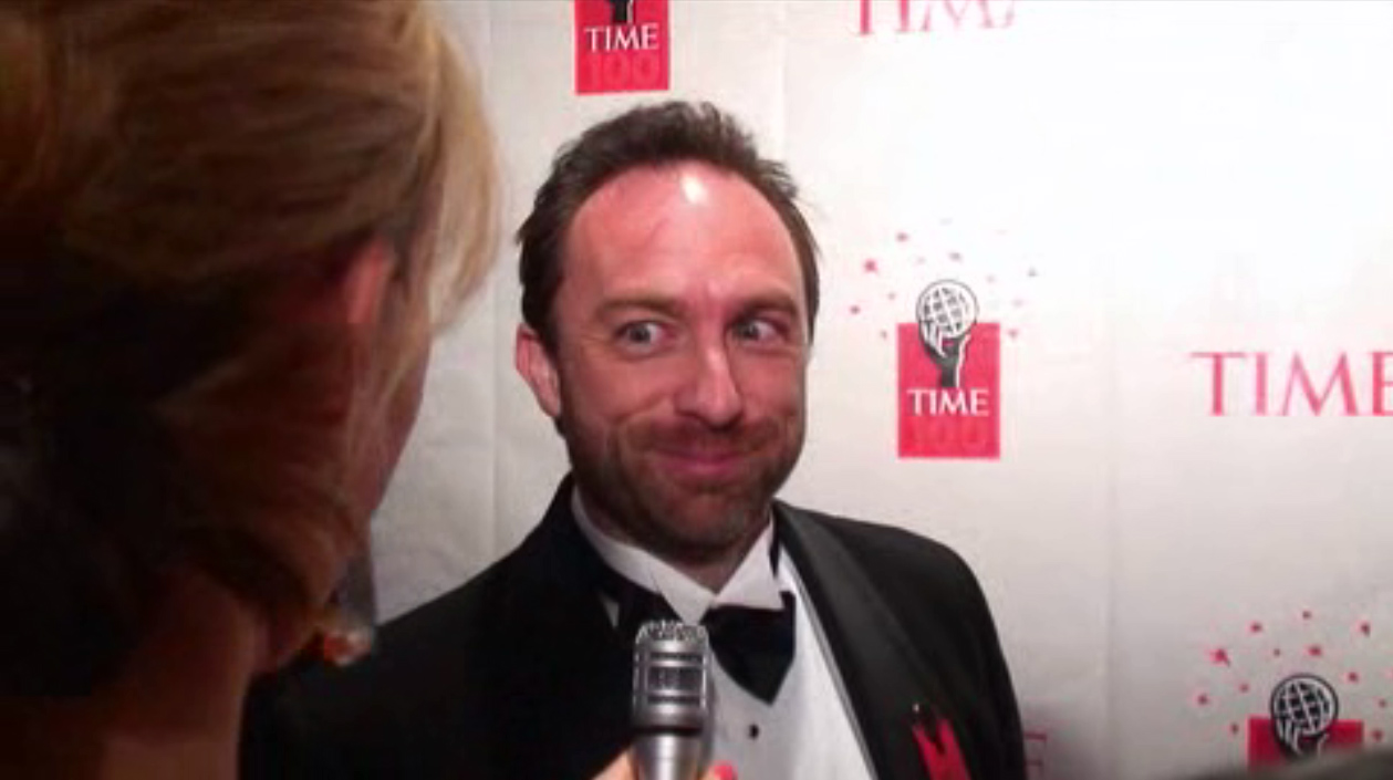 Time 100 2006 gala, Jimmy Wales speaks to Amanda Congdon.